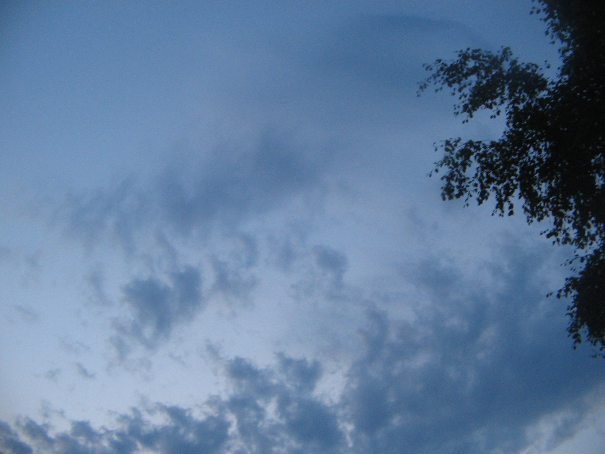 Weather/Cloud types/Stratocumulus castellanus cloud on summer night, very strong air uplift breaks whole cloud. lower side down.